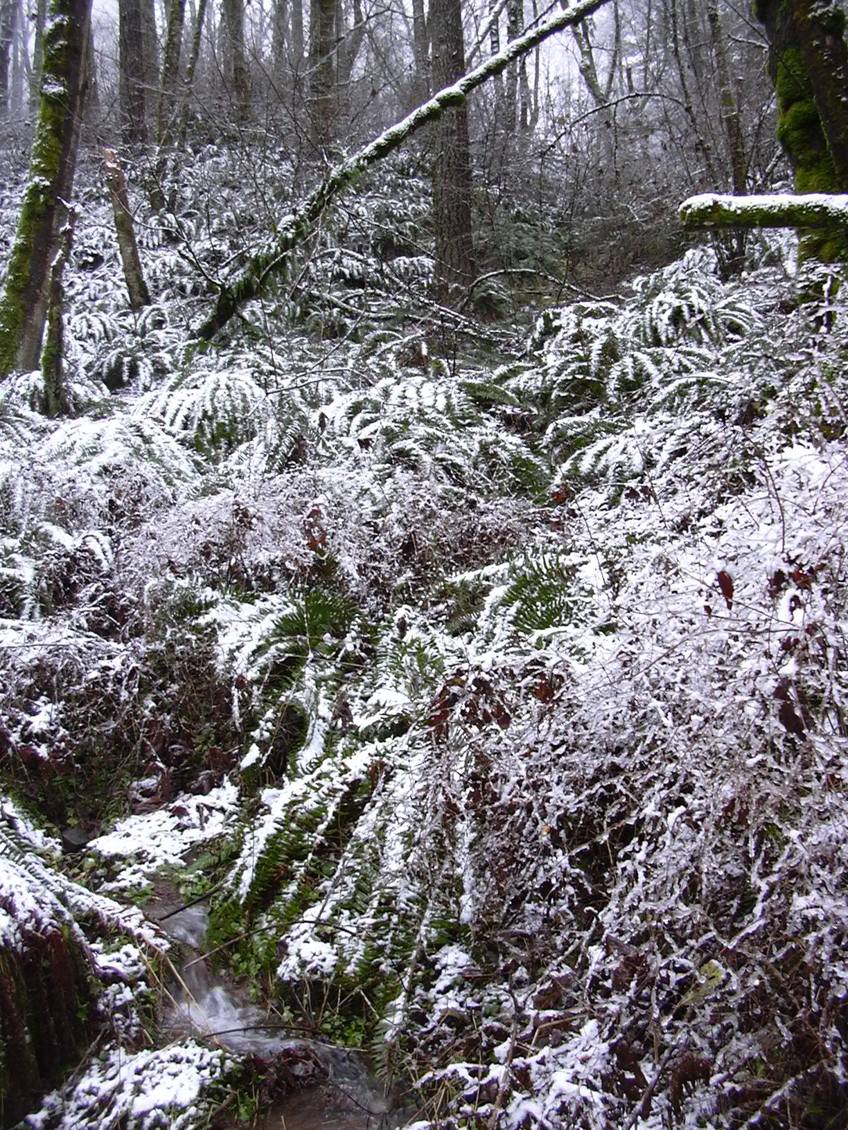 View inside valley between Gresham buttes. A tributary of Johnson Creek runs in the foreground.